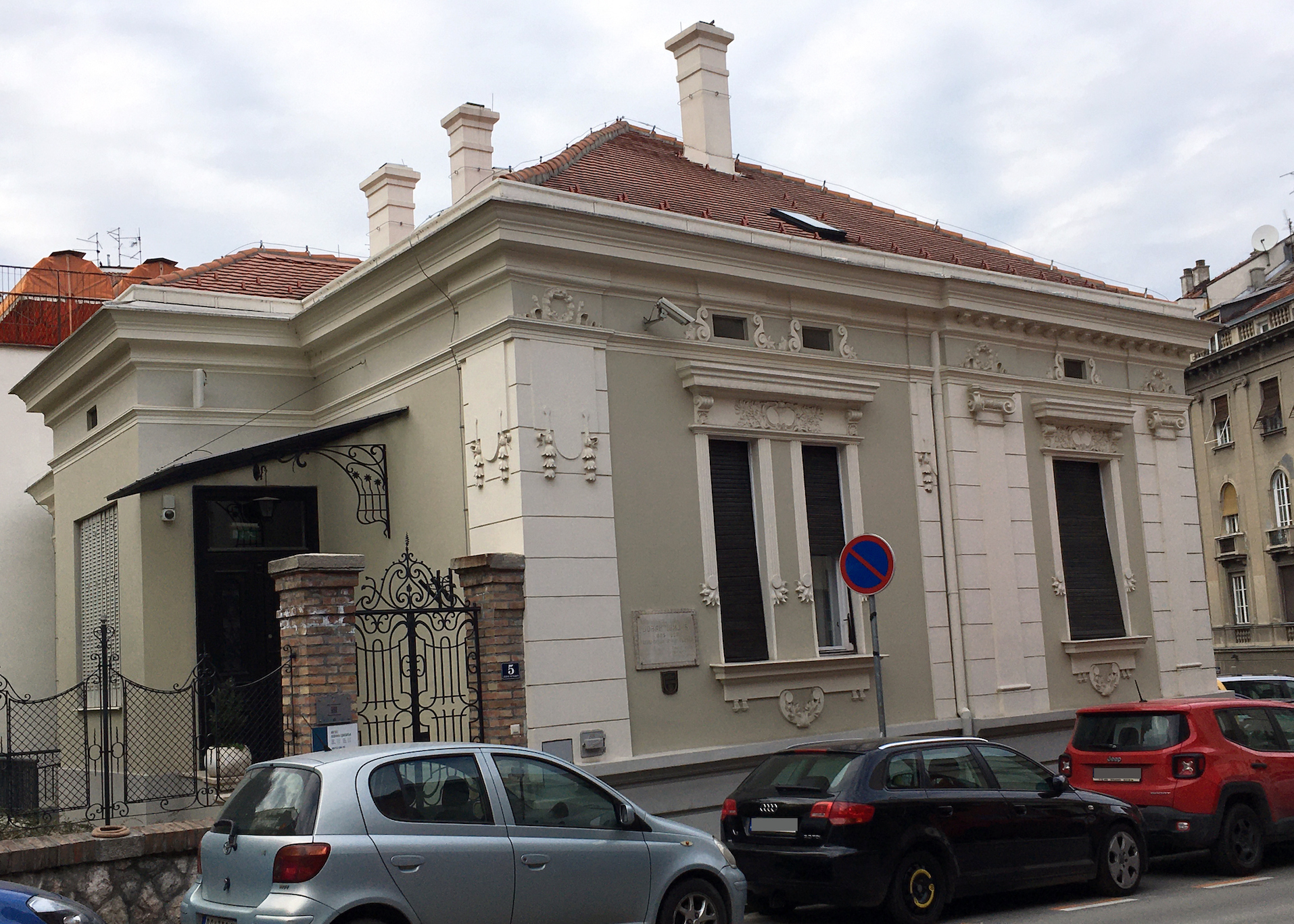 House of Jovan Cvijić in Belgrade, 2020